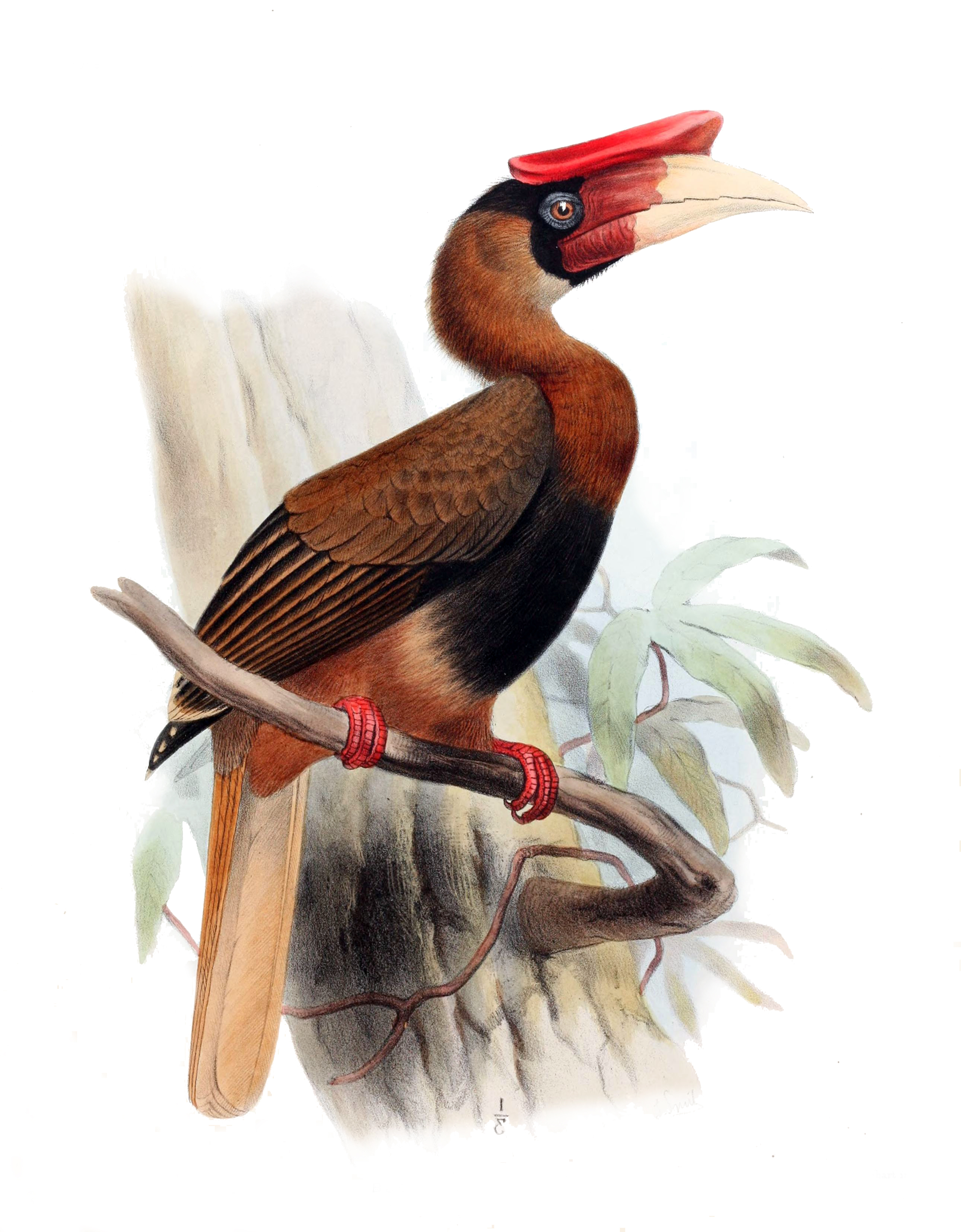 « Buceros mindanensis » = Buceros hydrocorax mindanensis (Subspecies of Rufous Hornbill)